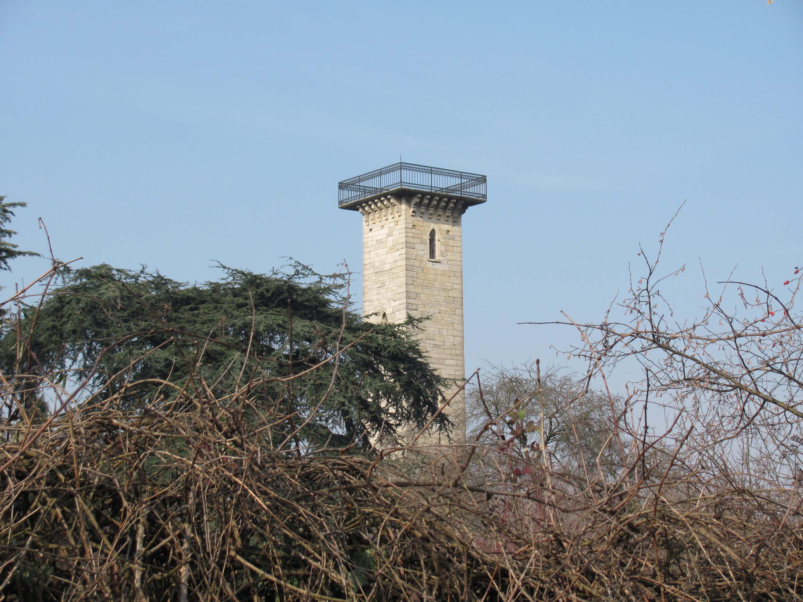 Sermenaz tower.